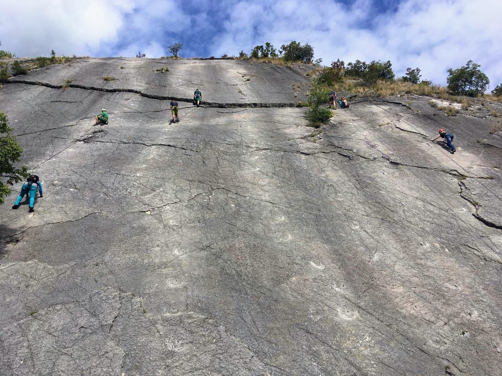 Placche di Baone, Arco, Italy, sports climibing